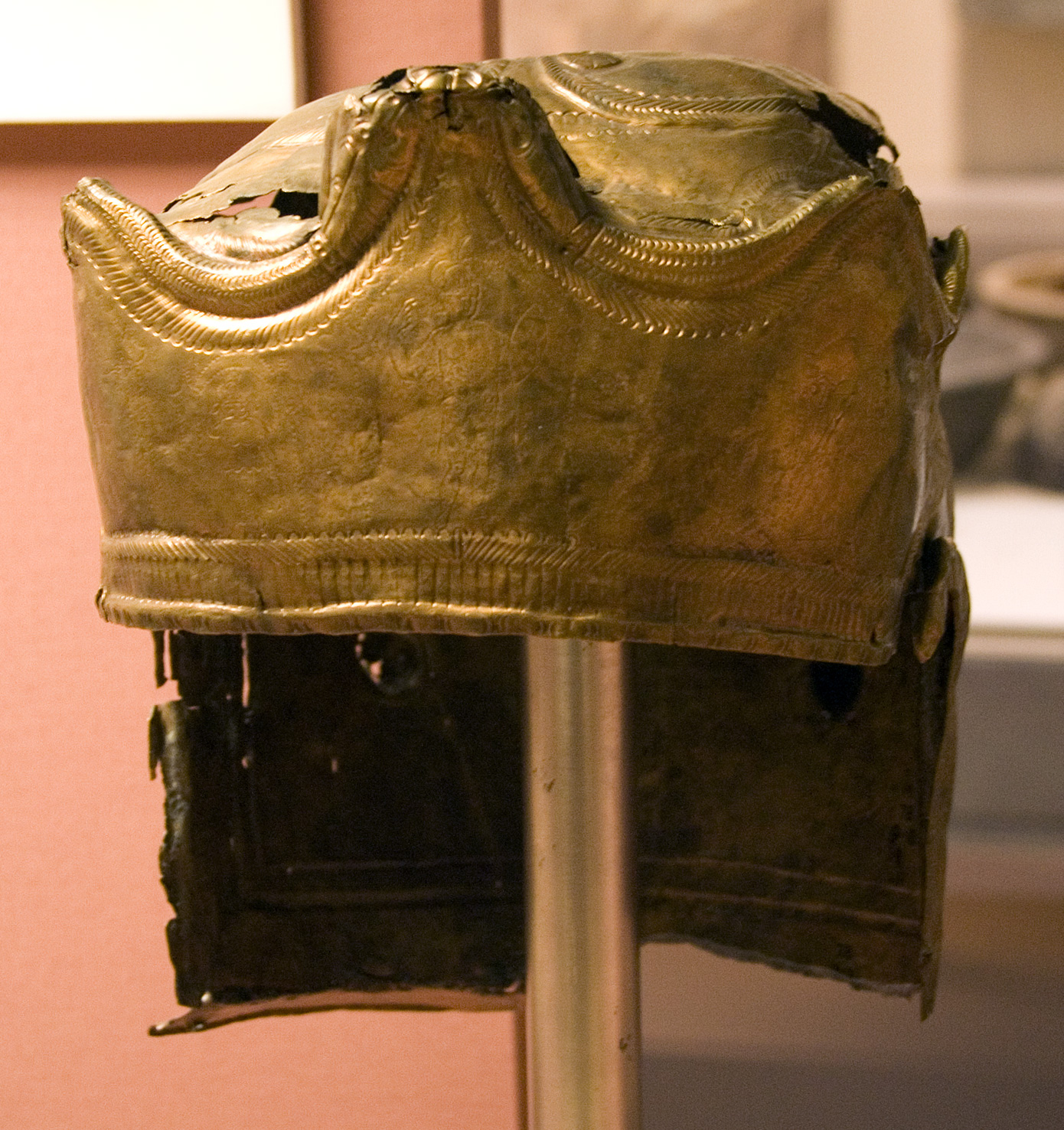 Front left view of the Guisborough Helmet